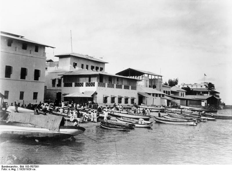 Scherl: Sansibar, City